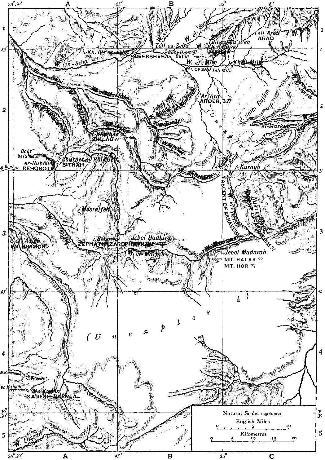 An illustration from the Encyclopaedia Biblica, a 1903 publication which is now in the public domain. Map for article "Negeb". It would be helpful if someone could add colour to the map (specifically, the oceans, rivers, and lakes), to clarify it/ improve the aesthetic.